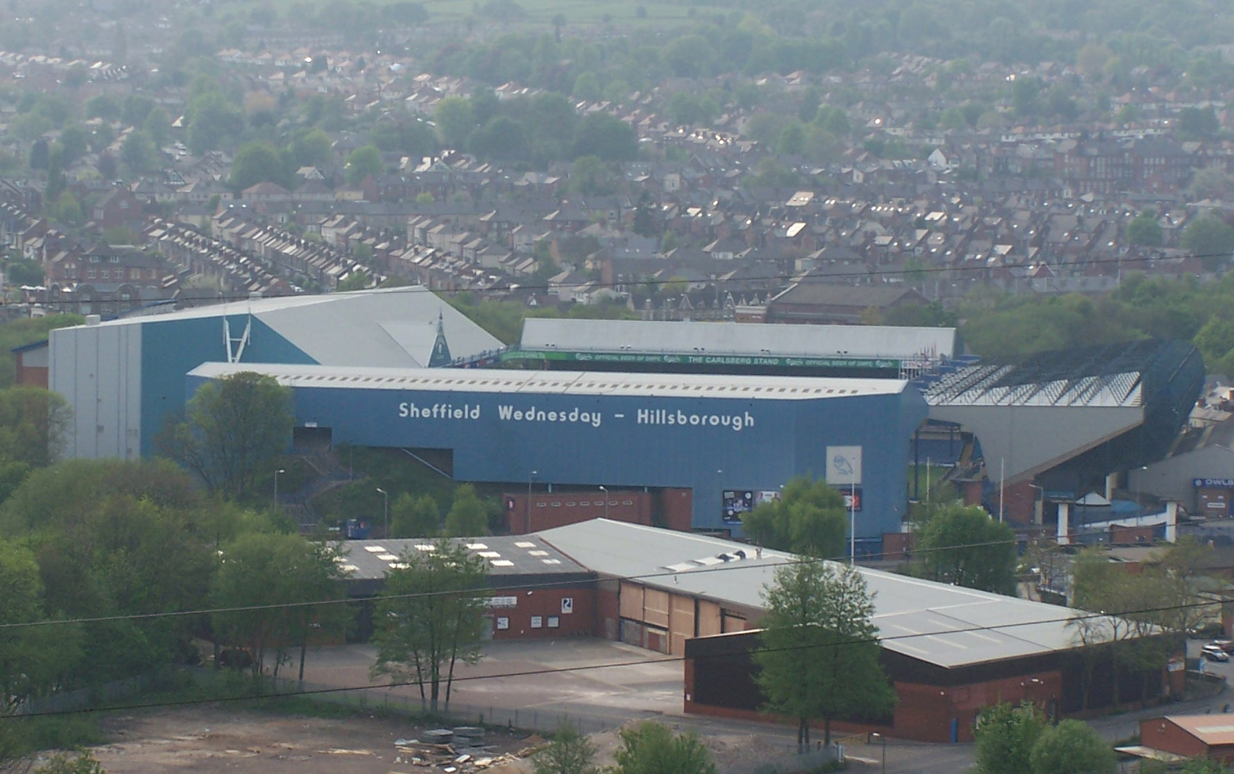 The Sheffield Wednesday Football Ground seen from Shirecliffe. 1.5 km to the east